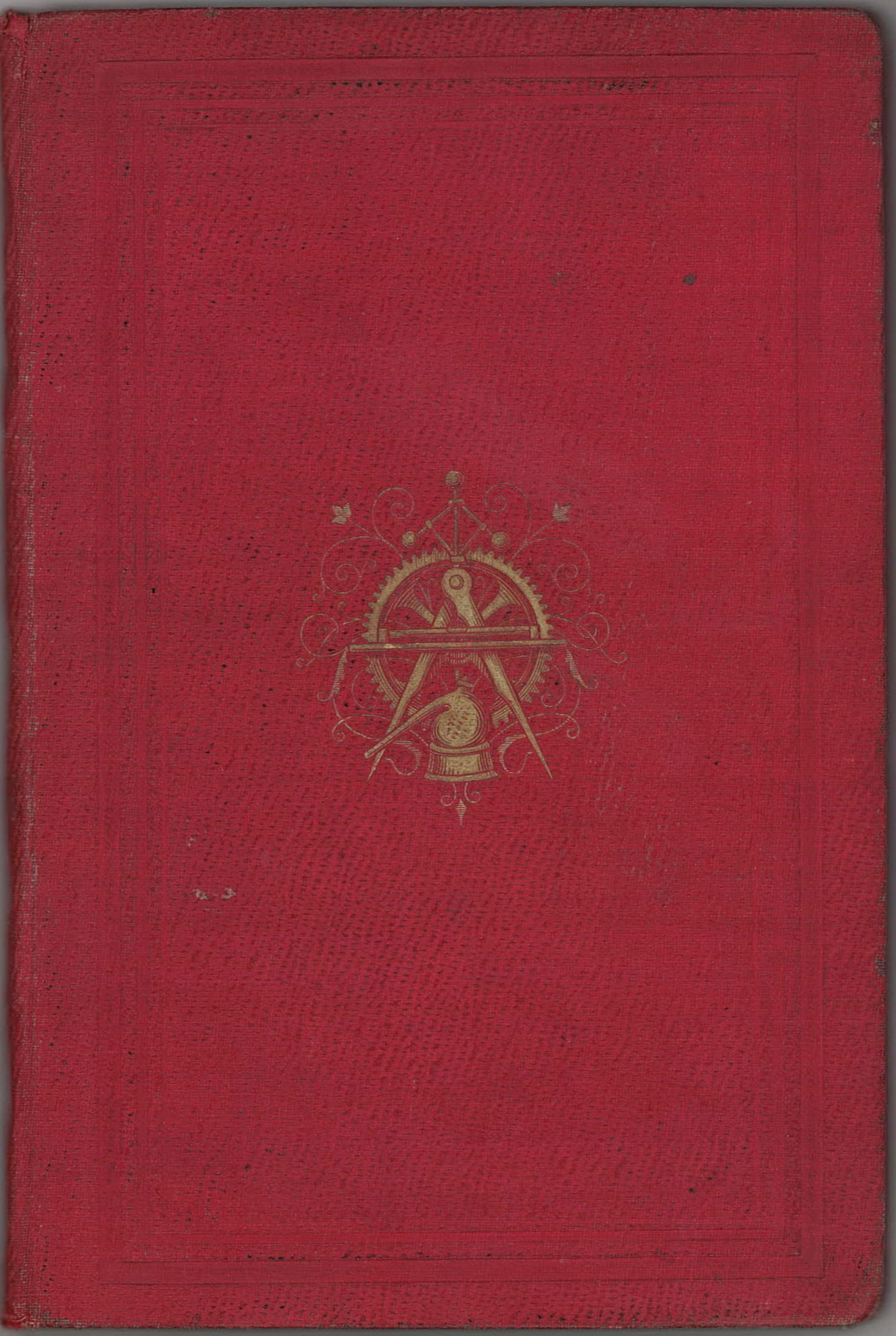 Frontcover of the Memorial Script of the General Meeting of the Association of German Engineers 1877 in Francfort